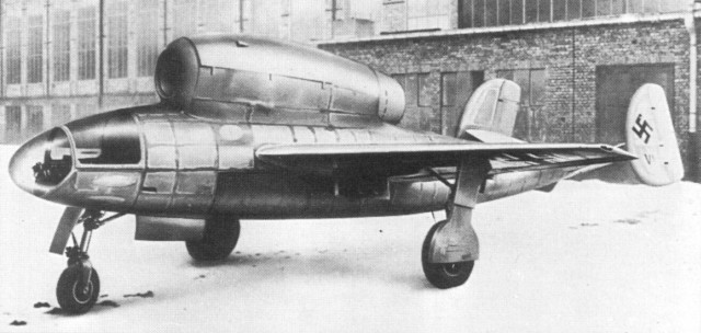 Artist view of the Henschel Hs 132 dive bomber